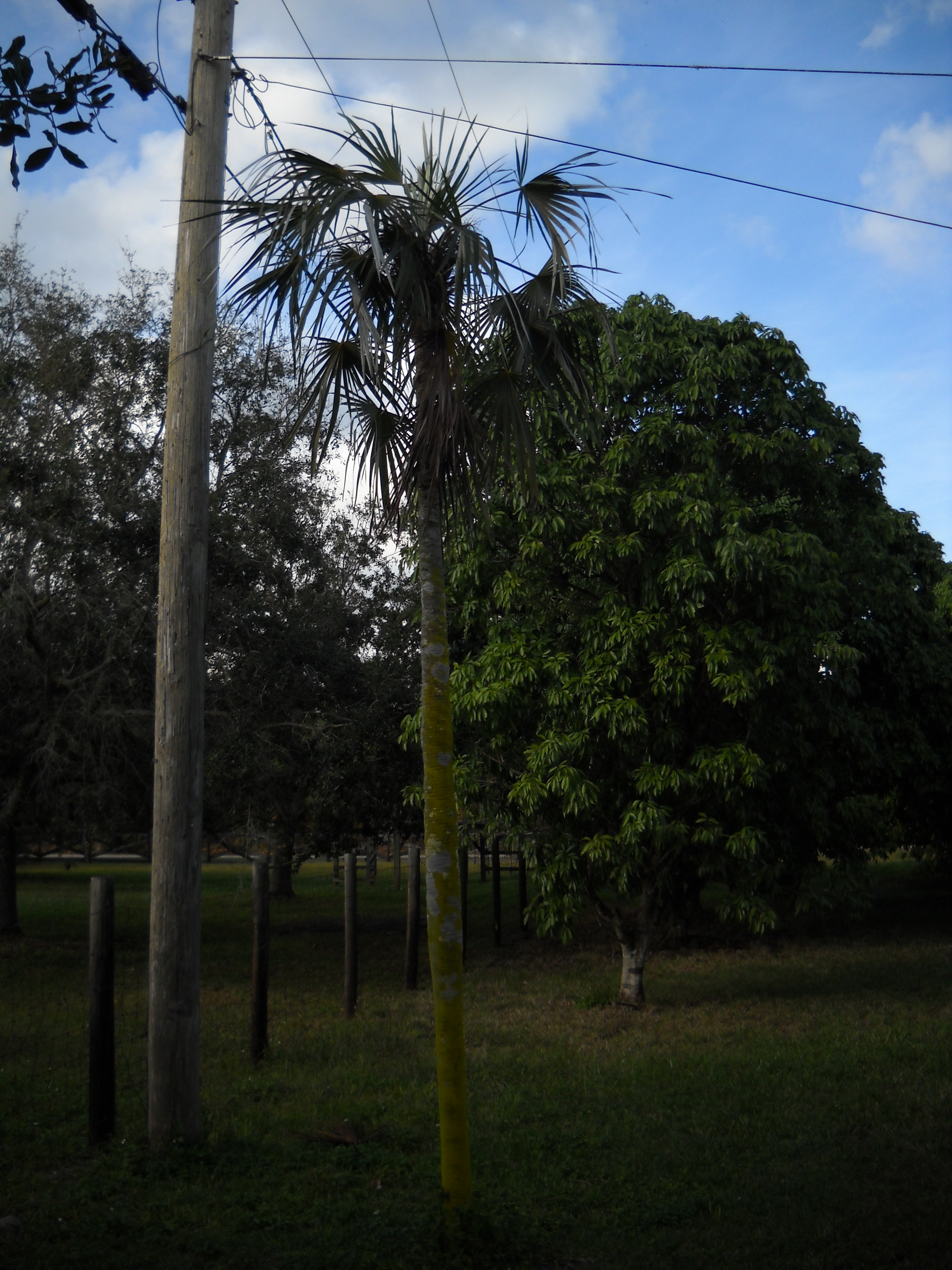 Coccothrinax argentata in a residential area Other information Homestead Florida